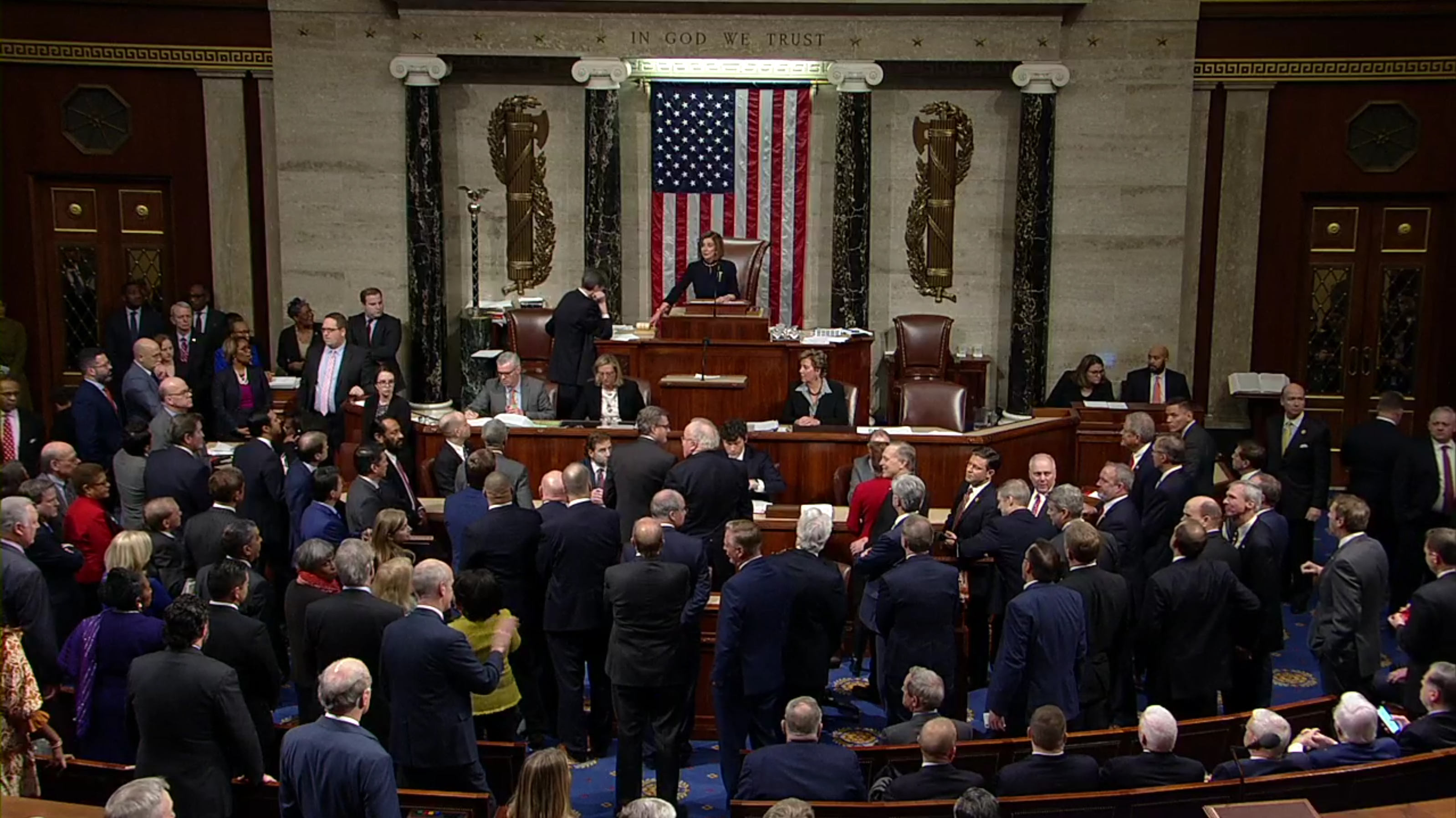 On December 18, 2019, United States House of Representatives votes to adopt the articles of impeachment, accusing Donald Trump of abuse of power and obstruction of Congress.